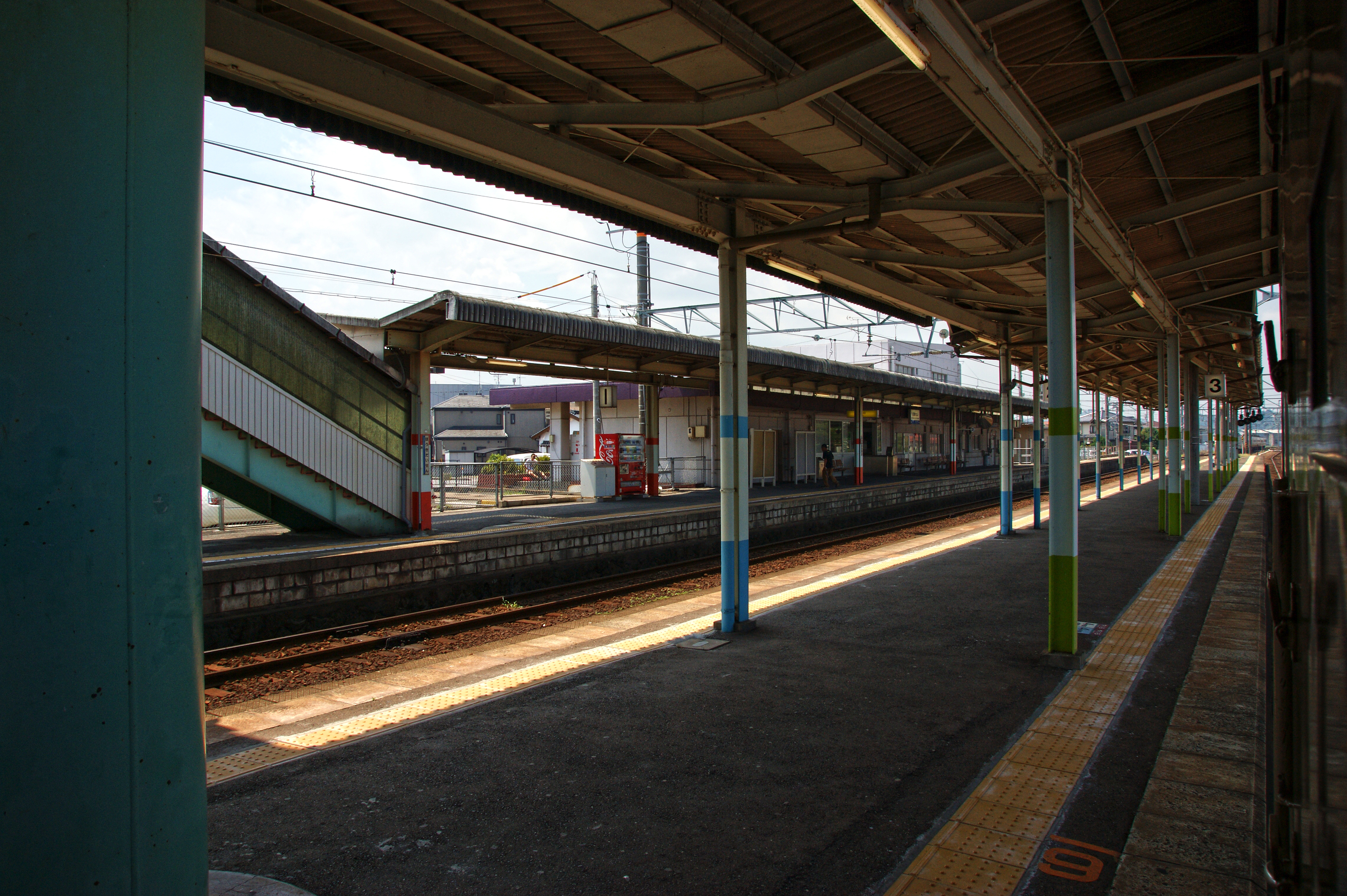 Hōki-Daisen Station in Yonago, Tottori prefecture, Japan.